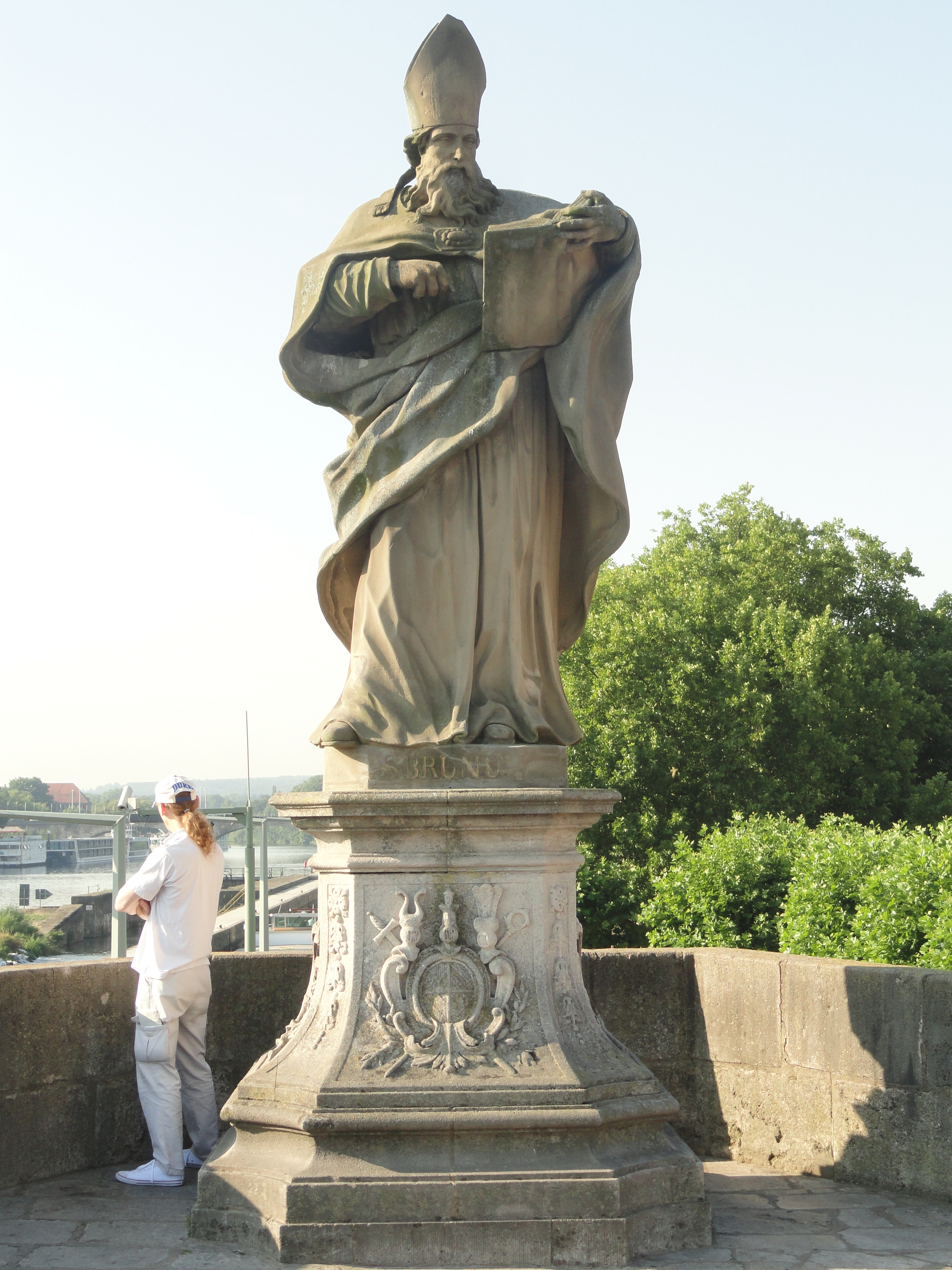 Statue on the Alte Mainbrücke in Würzburg, Germany.